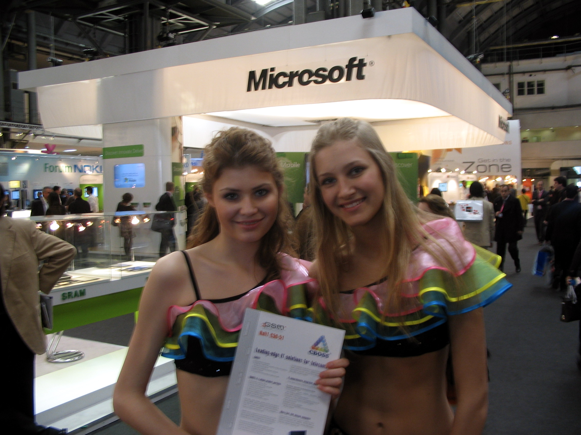 CBOSS girls. I'm not usually the kind of a person who takes photos of booth babes, but the Russian CBOSS girls are an institution. It's a pity that no-one knows what CBOSS does... 3GSM in Barcelona.